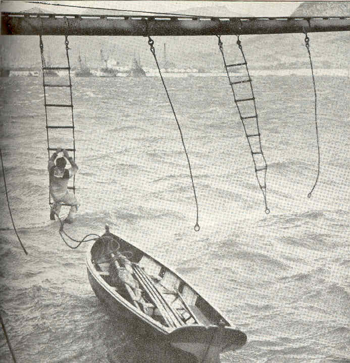 Subject: Ladders--Safety measures, Arrivals and departures, Naval maneuvers Tag: Vessels